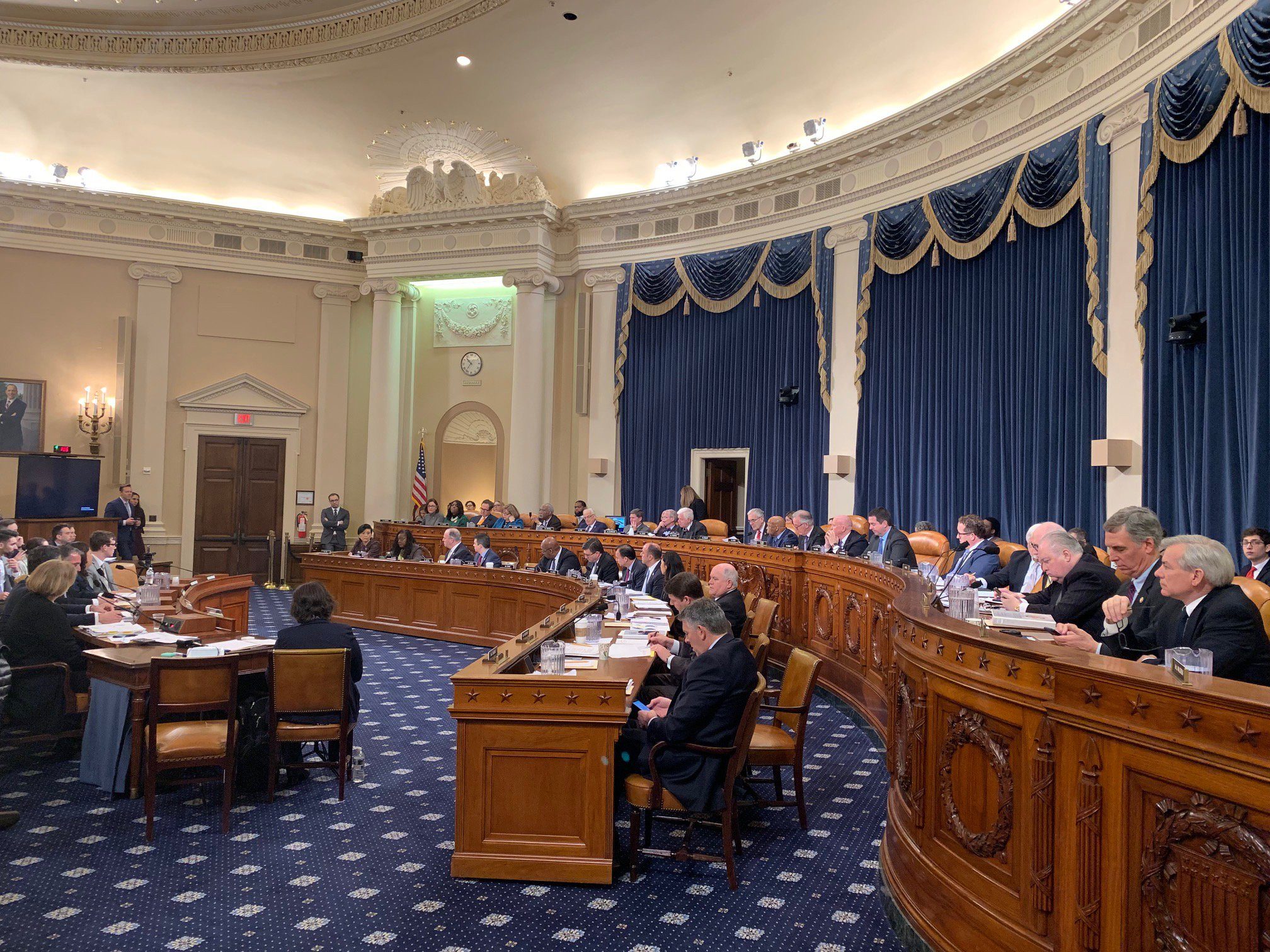 First Ways and Means Committee hearing this Congress: Hearing on Protecting Americans with Pre-Existing Conditions.